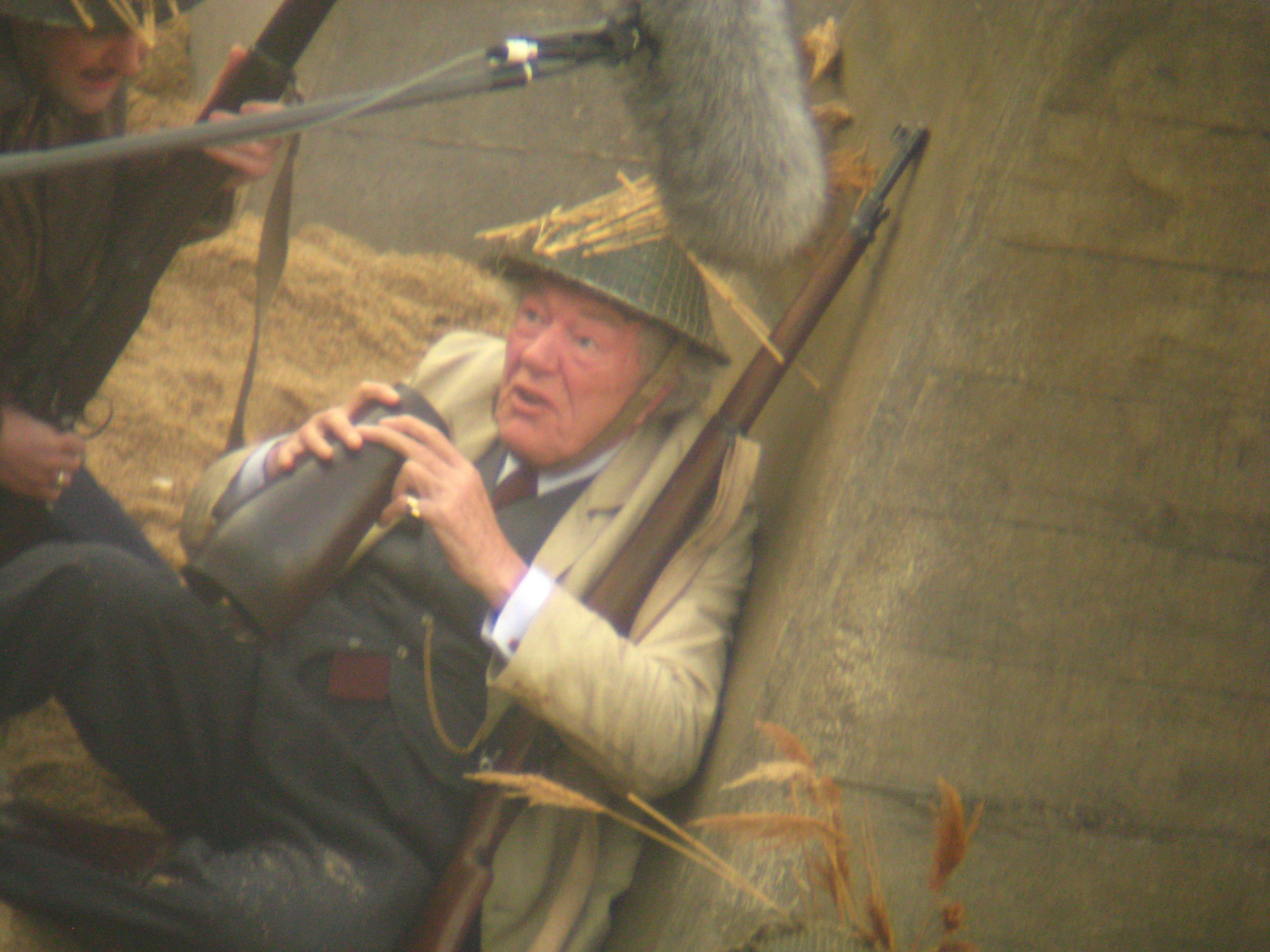 Michael Gambon on the set of Dad's Army in October 2014. Filming took place on the beach at North Landing, Flamborough, East Riding of Yorkshire, England. The scene involved German soldiers shooting from behind their landing craft at Captain Mainwaring's platoon, who were hiding behind 'concrete' anti-tank emplacements on the beach. Godfrey appeared to be using a leather leg brace or splint as a make-shift loudhailer in order to address the attacking Germans. Digiscoped image taken from cliff top high above film set